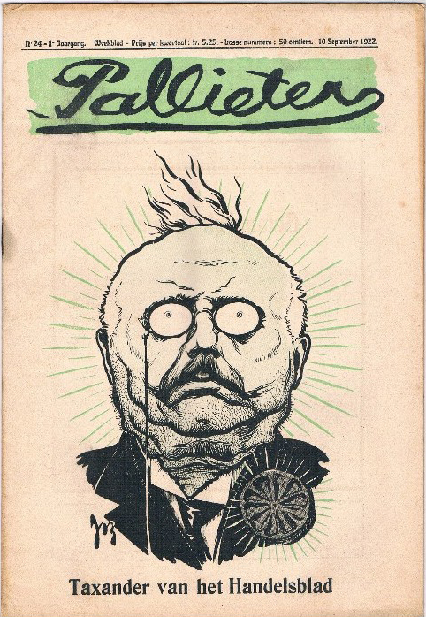 Taxander. (Het Handelsblad [van Antwerpen]). Front page of the Flemish magazine Pallieter (1922-1928). All front pages were designed and illustrated by Jos De Swerts (1890-1939).